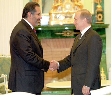 THE KREMLIN, MOSCOW. President Putin with Qatar's Foreign Minister Sheikh Hamad Bin Jassim Bin Jaber al-Thani.